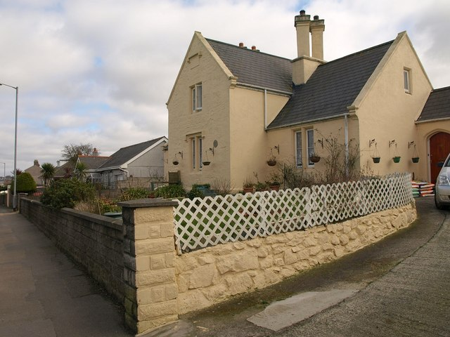 Almshouse, Illogan Highway A plaque on this house on Agar Road reads "almshouse built 1806 by Lady Frances Basset". It was for "four widows or aged people" . The building straddles a gridline.